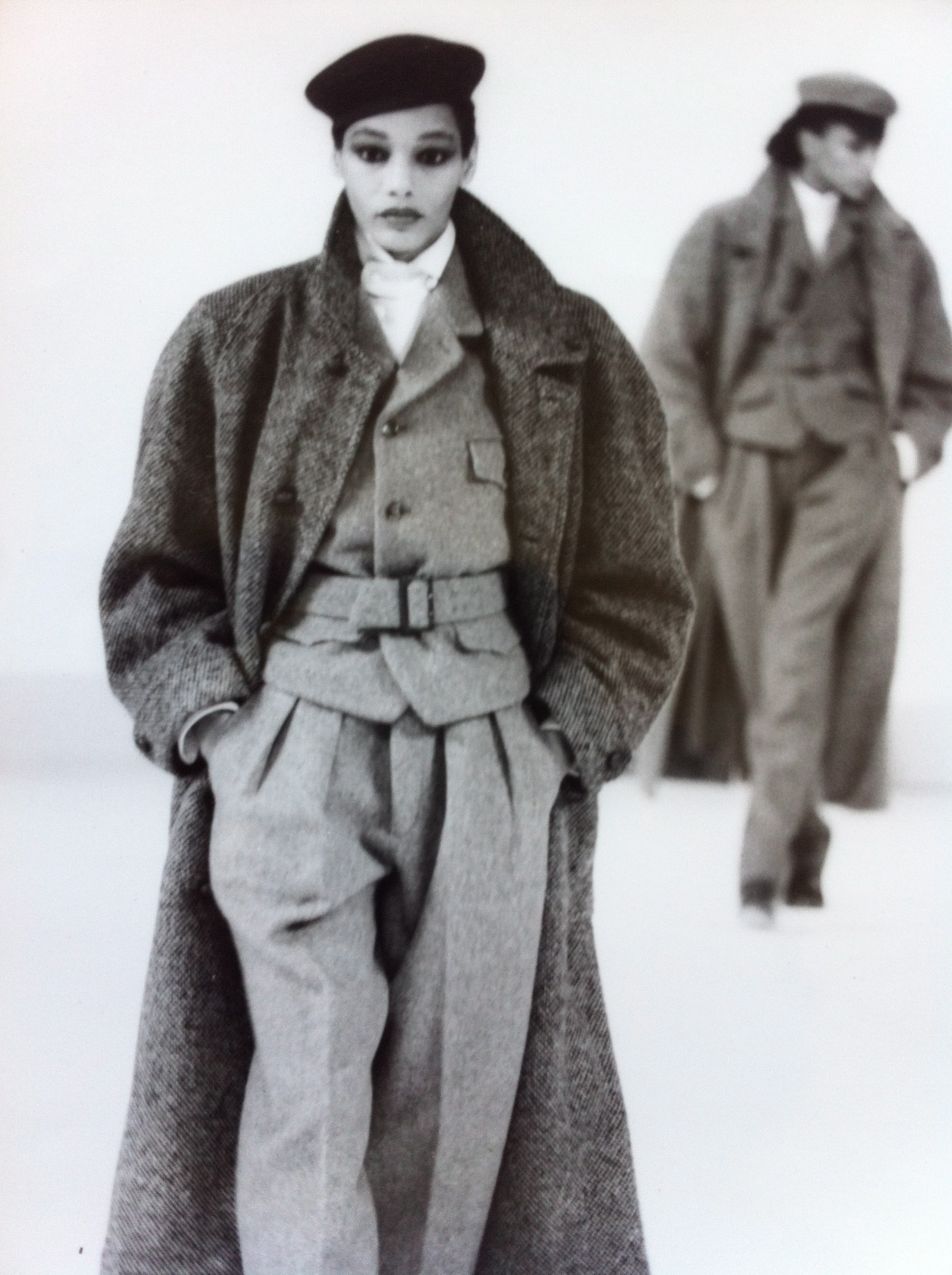 American model Renée Gunter modeling Haute Couture clothing in Japan